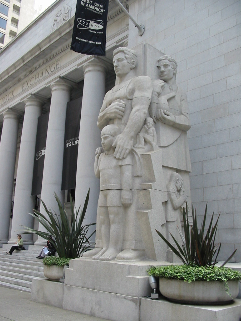 Photograph showing site placement and scale of the Ralph Stackpole sculpture "Industry" standing at 301 Pine in San Francisco, California.